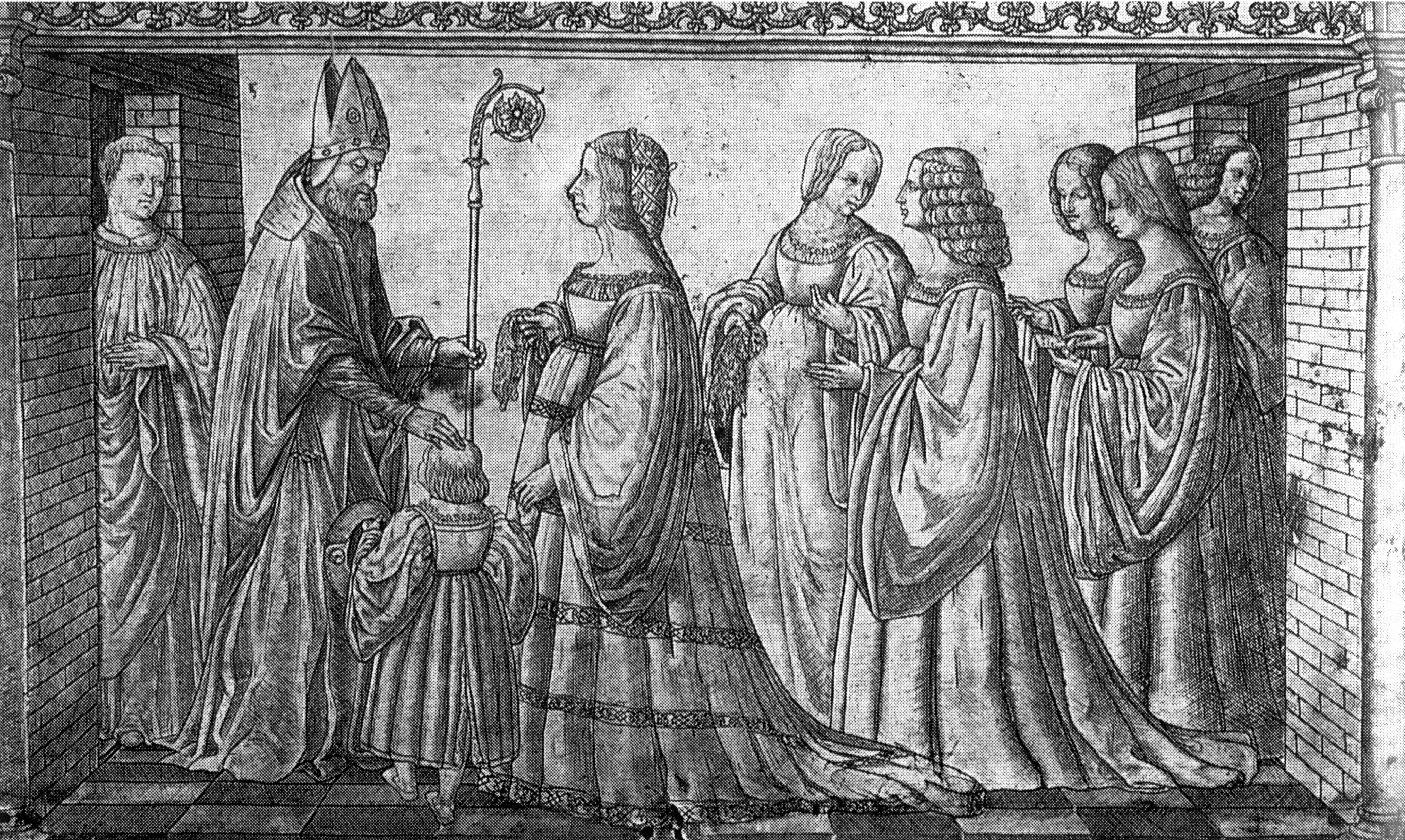 Engraved silver plaque showing the 32 year old Lucrezia presenting her son and heir, Ercole (b. 1508), to San Maurelio, protector of Ferrara. The plaque was executed by Giannantonio da Foligno to commemorate the victory of the French and Ferrarese forces over the papal and Spanish armies at the battle of Ravenna in 1512. (from source) Giannantonio da Foligno. Reliquary panel of San Maurelius, c. 1514. Church of S. Giorgio fuori le mura, Ferrara[1]